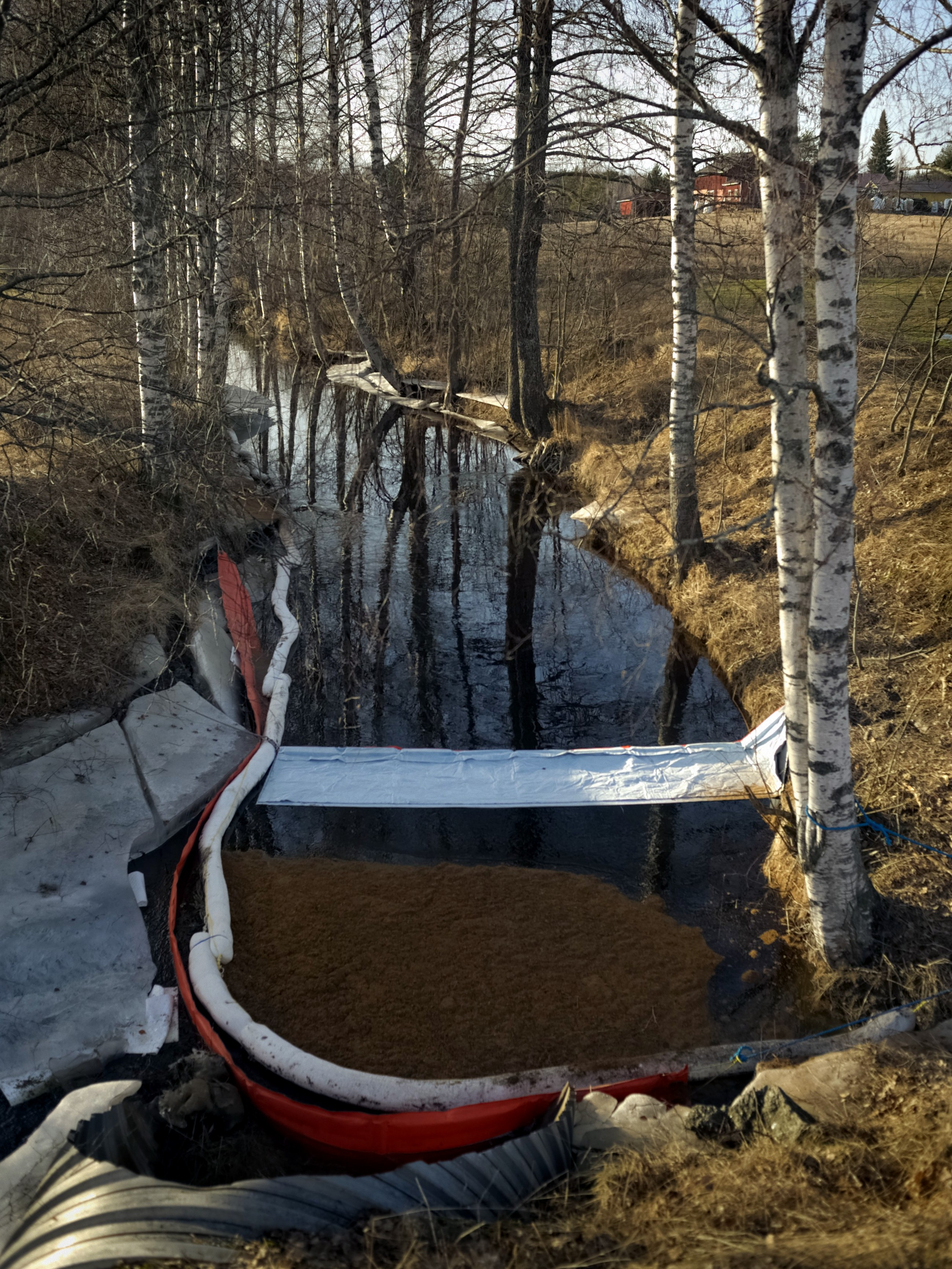 Oil fault in river Vilajoki, march 2014